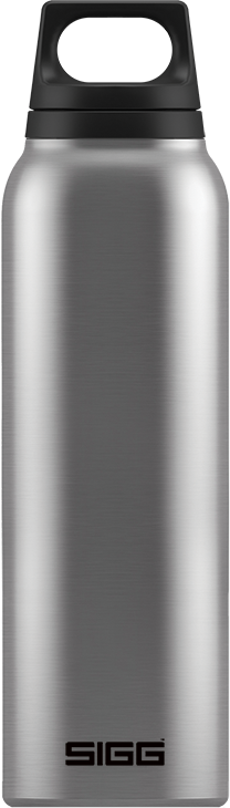 SIGG Hot & Cold